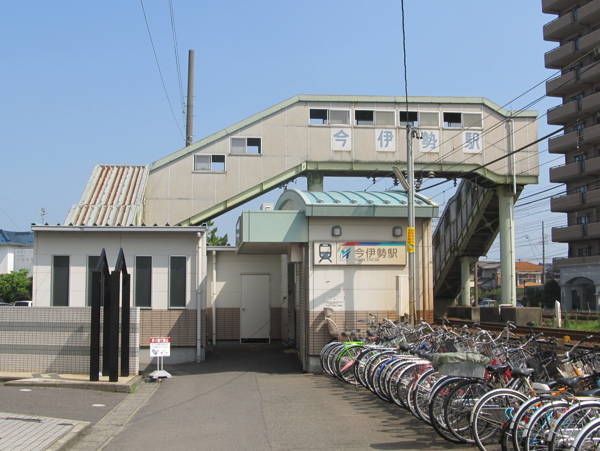 Nagoya Railroad Nagoya Main Line Imaise Station Building.